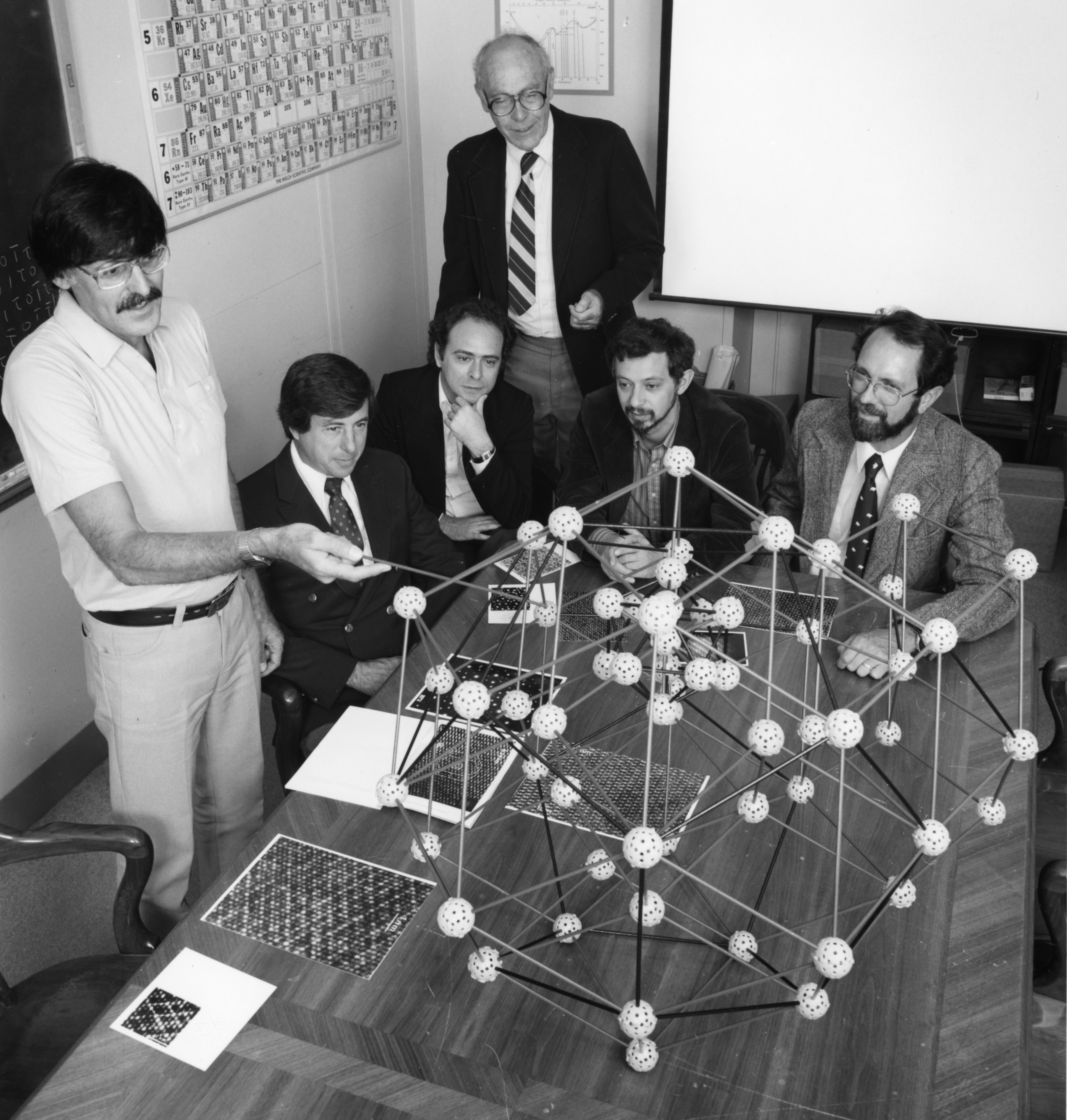 Meeting at the National Institute of Standards and Technology (NIST) in 1985 just months after shaking the foundations of materials science with publication of his discovery of quasicrystals, Dan Shechtman, winner of the 2011 Nobel Prize in Chemistry, discusses the material’s surprising atomic structure with collaborators. From left to right are Shechtman; Frank Biancaniello, NIST; Denis Gratias, National Science Research Center, France; John Cahn, NIST; Leonid Bendersky, Johns Hopkins University (now at NIST); and Robert Schaefer, NIST.